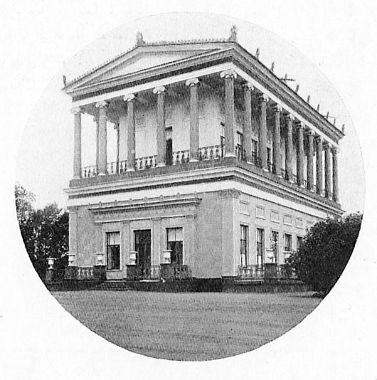 Pavilion the Belvedere. Meadow park in Peterhof.